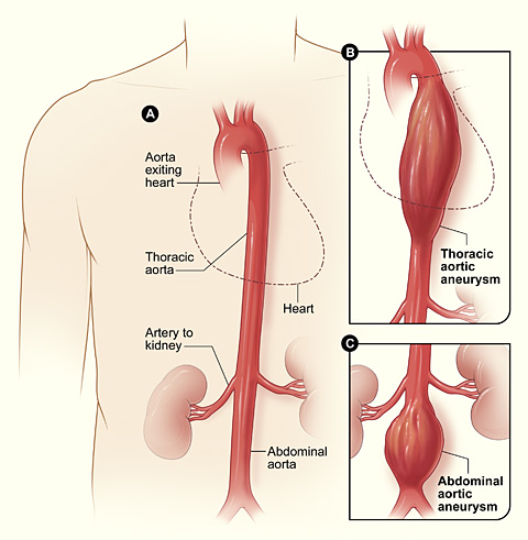 Diagram of aortic aneurysm Figure A shows a normal aorta. Figure B shows a thoracic aortic aneurysm (which is located behind the heart). Figure C shows an abdominal aortic aneurysm located below the arteries that supply blood to the kidneys.